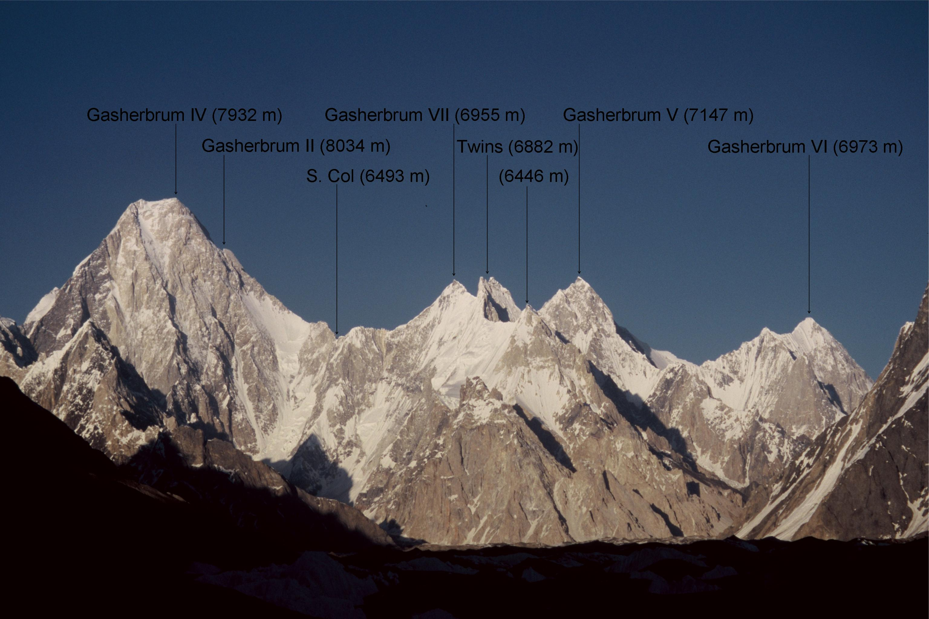 Annotated West faces of Gasherbrum IV, V, VI, VII. The peak of Gasherbrum II is hardly, but just barely visible behind the southern ridge of Gasherbrum IV. Hidden Peak (Gasherbrum I) is hidden behind Gasherbrum V.